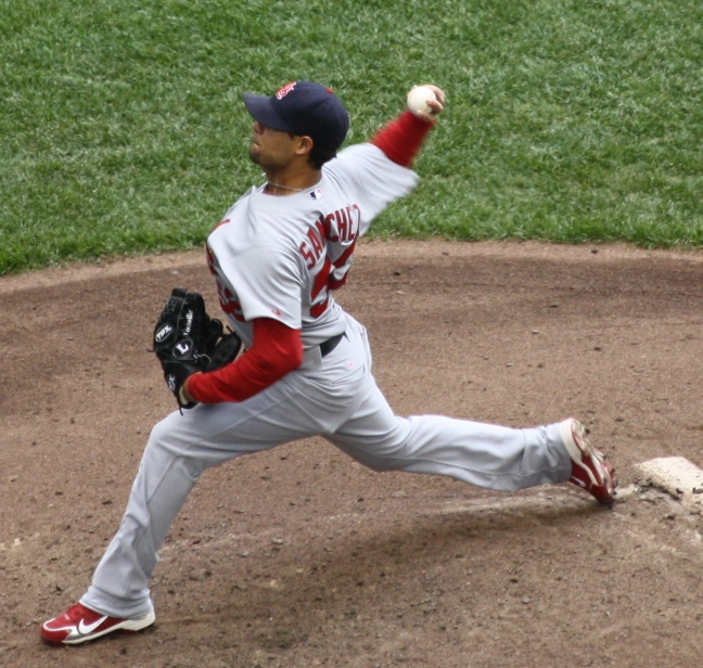 Eduardo Sánchez pitching in 2011 at Miller Park.